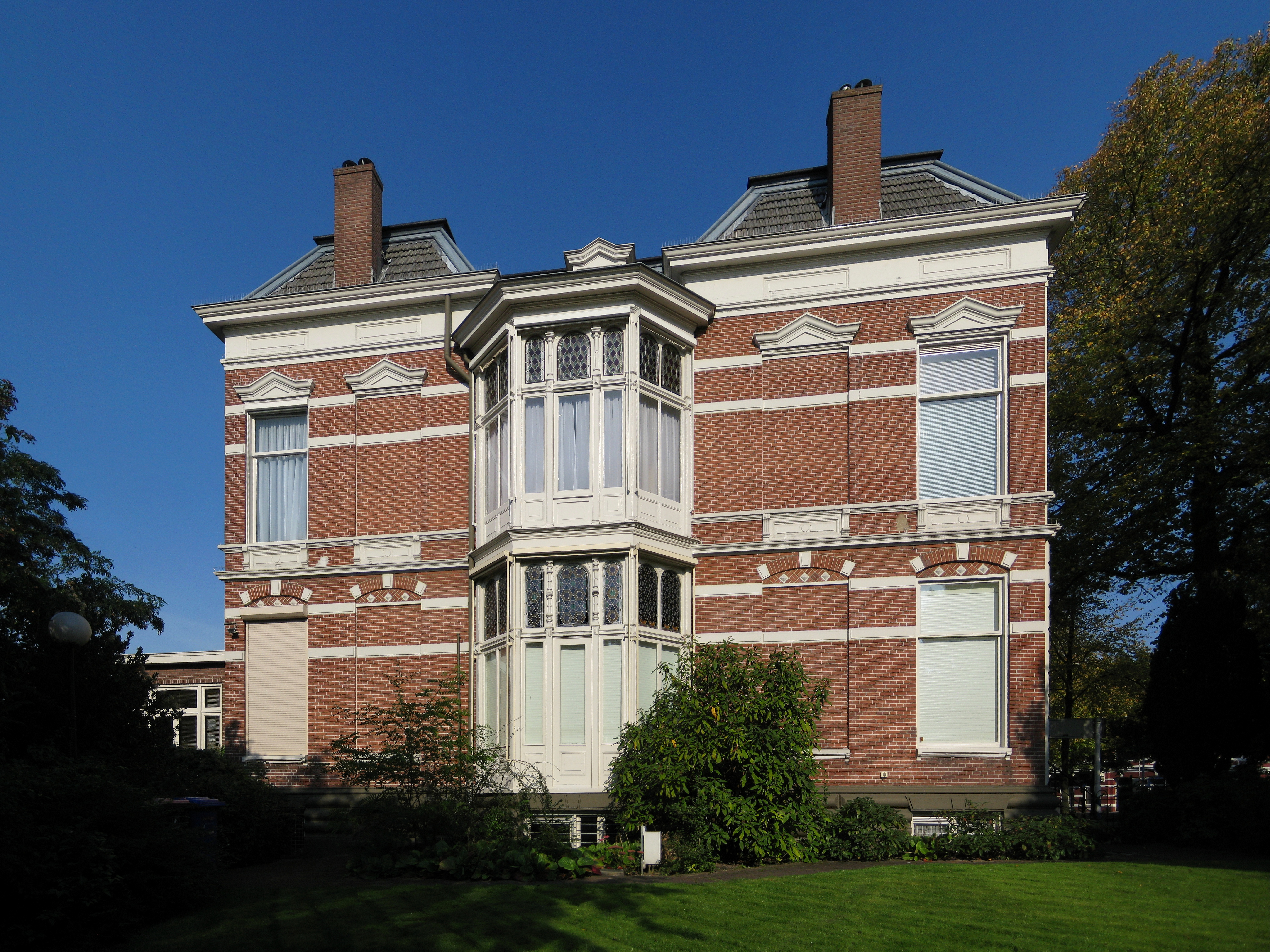 Double villa (1899) in the Dutch city of Groningen.